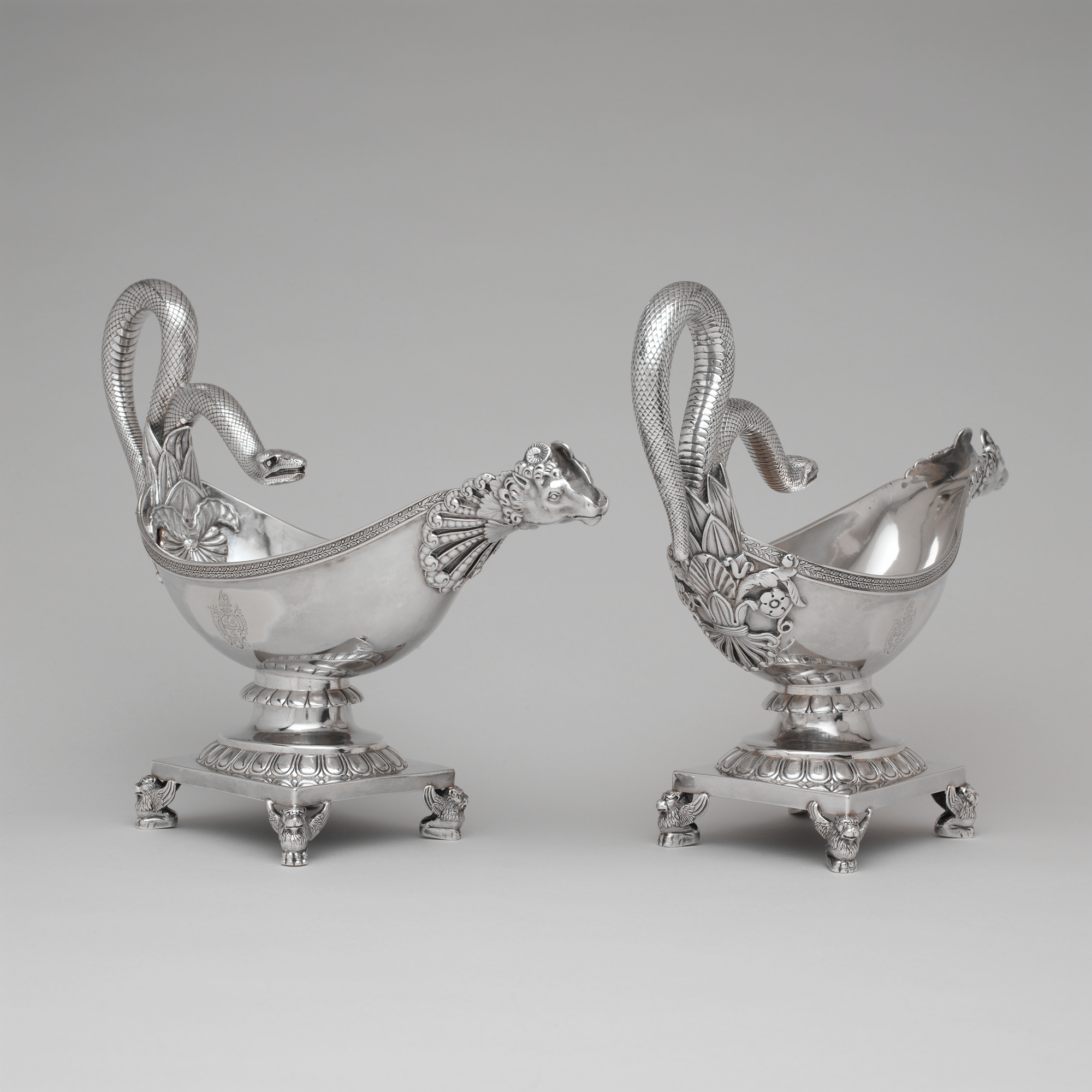 American; Sauceboat; Silver